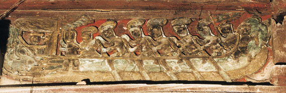 relief carving of a Mong Dong boat- Huong Canh communal house